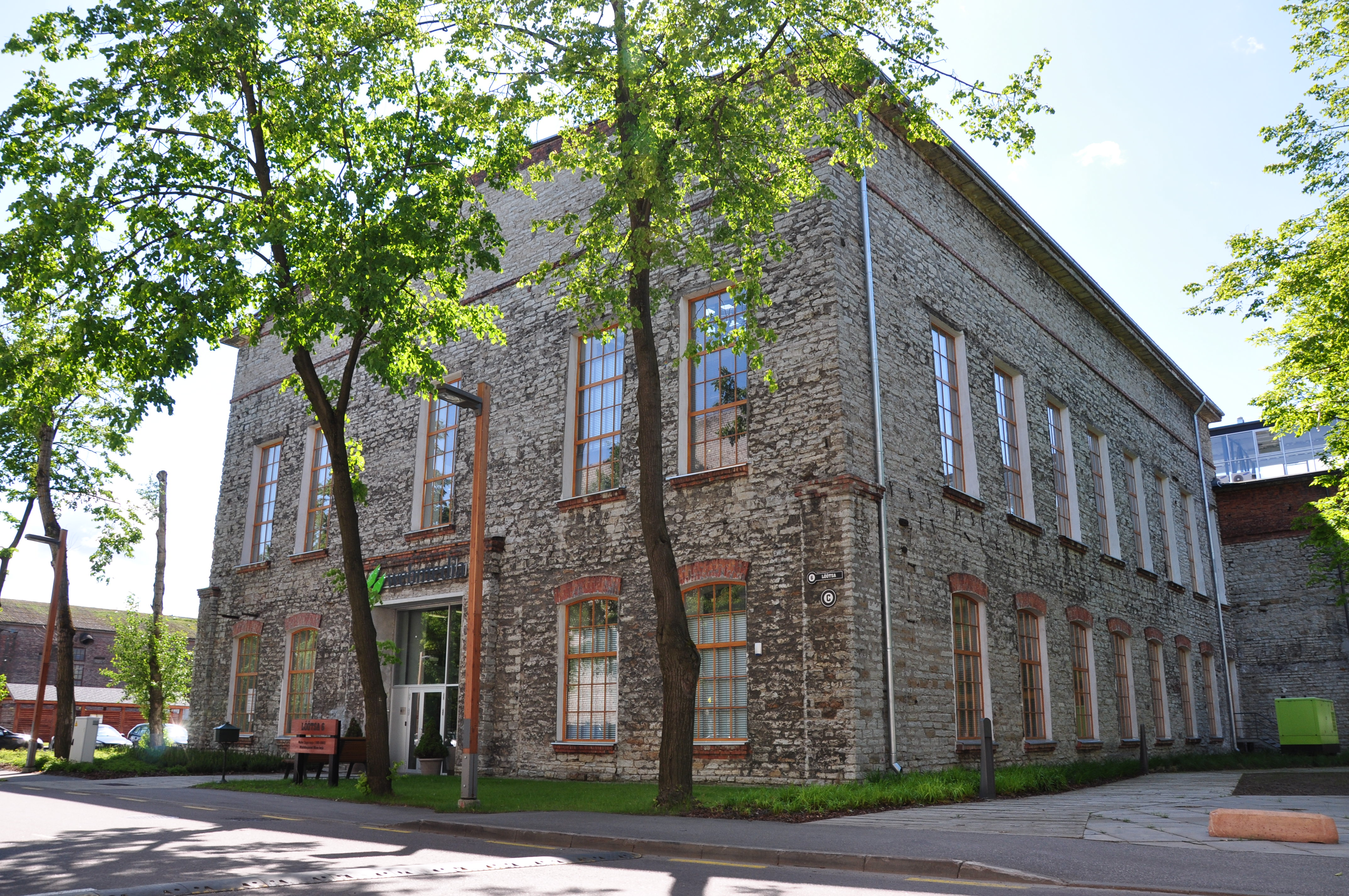 Webmedia Group headquarters in Tallinn (Ülemiste City), Estonia